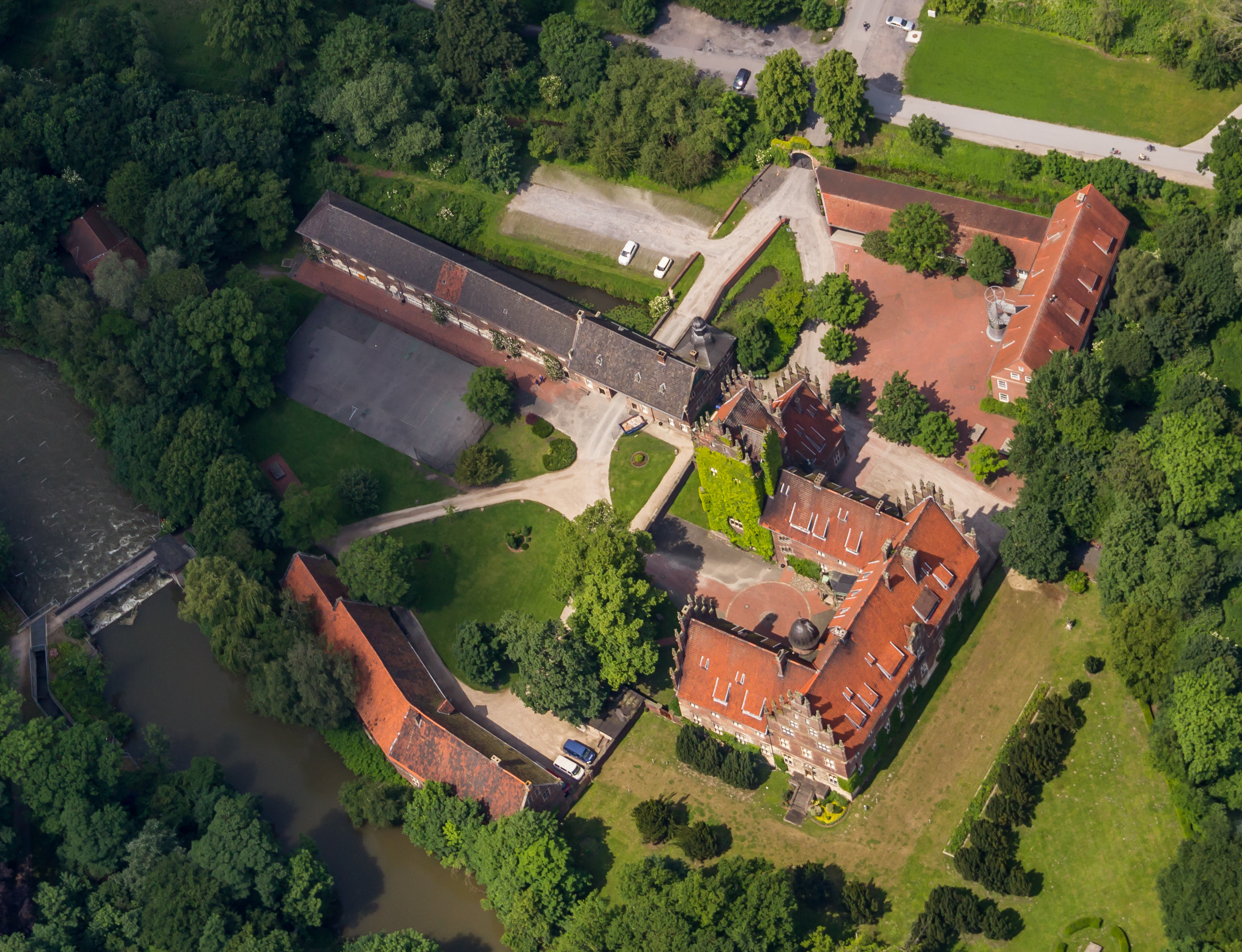 Heessen Castle, Hamm, North Rhine-Westphalia, Germany This image shows a heritage building in Germany, located in the North Rhine-Westphalian city Hamm (no. 5).